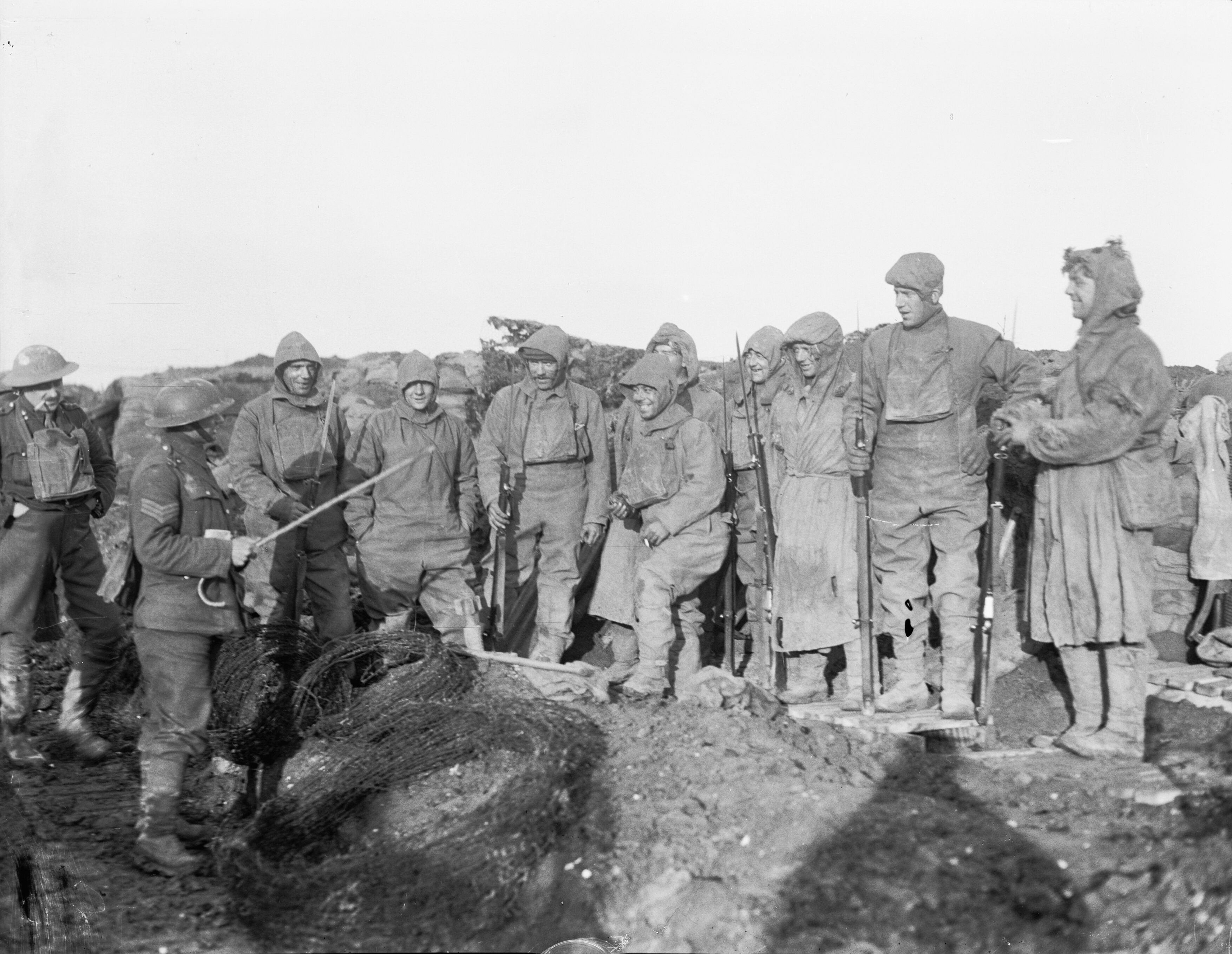 The British Army on the Western Front, 1914-1918 Troops of the York and Lancaster Regiment receving instructions in the trenches before starting out on a patrol near Roclincourt, 12 January 1918. Note their camouflaged outfits.